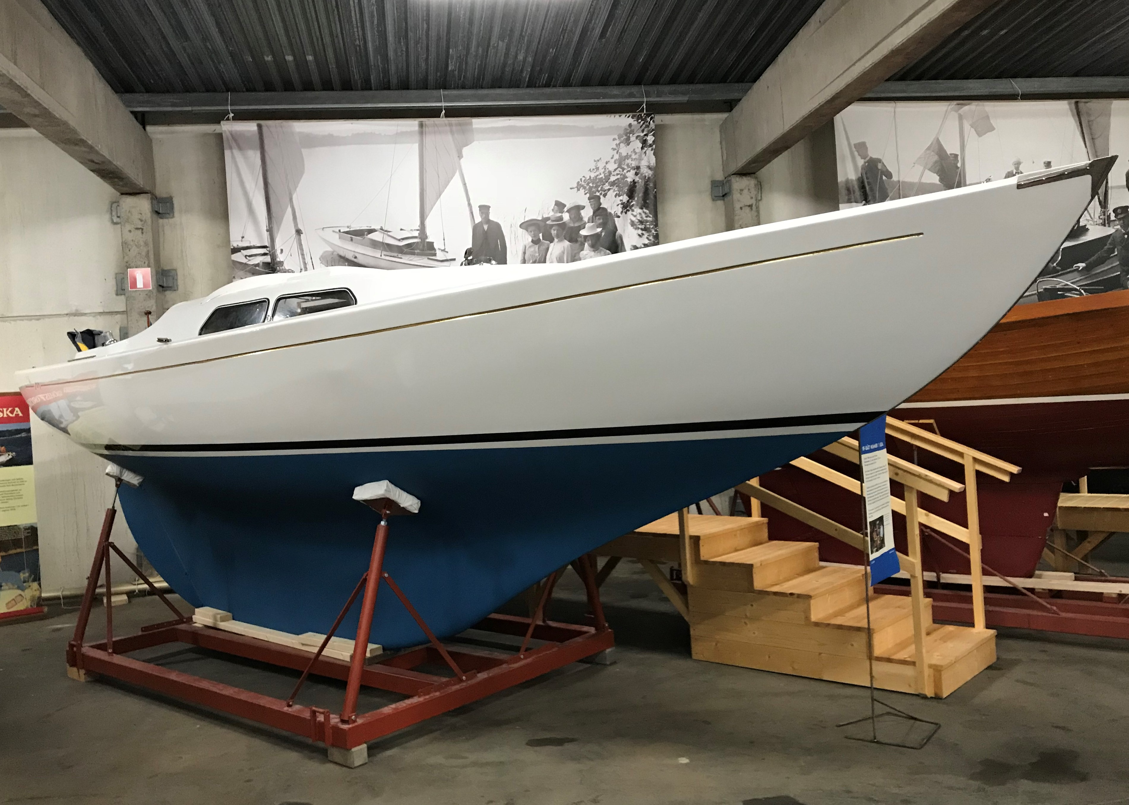 The first example of IF-boat, named Goal and designed by Tord Sundén in 1966. She was sailed for the first time in 1967. Goal belongs to the collections of The Maritime Museum Sjöhistoriska (part of the Swedish National Maritime Museums).